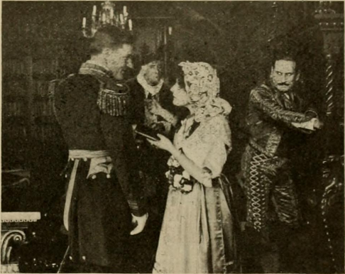 Scene from 1914 Vitagraph film, Mr. Barnes of New York, appearing in The Moving Picture World, May 2, 1914, Vol. 20, No. 5, at p. 651